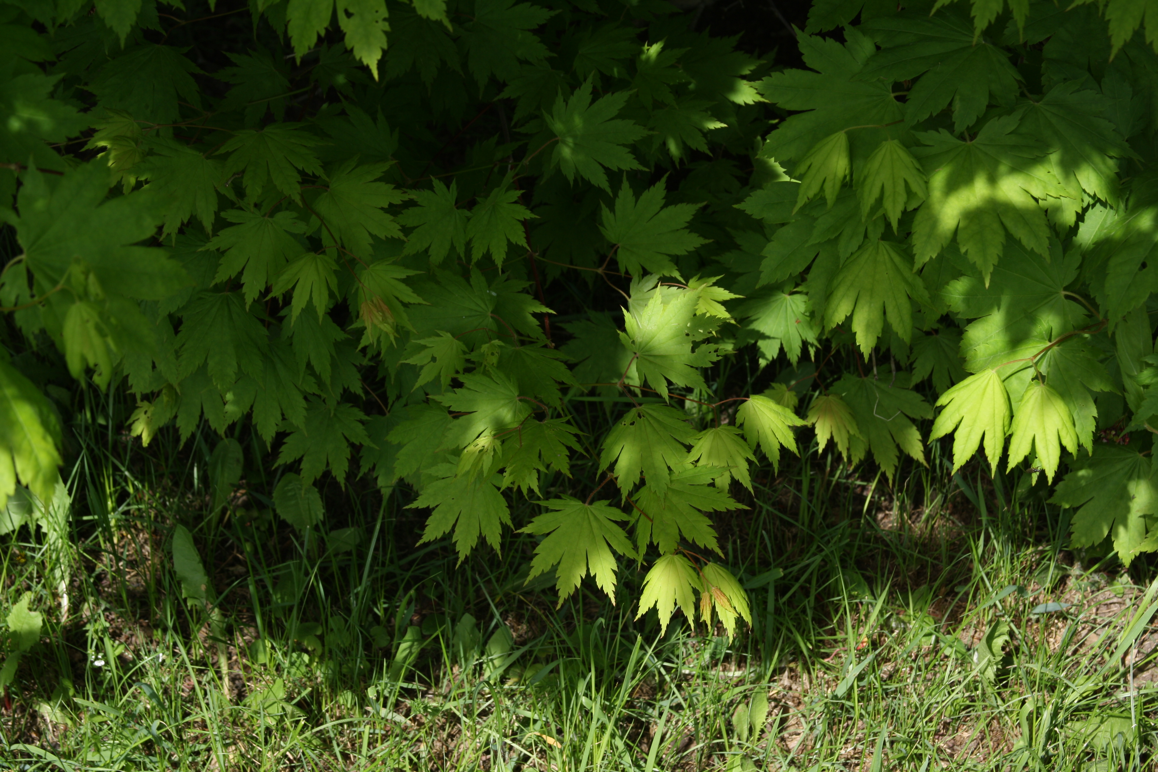 The young leaves of Korean maple (Acer pseudosieboldianum), Botanical garden of Tallinn, Estonia